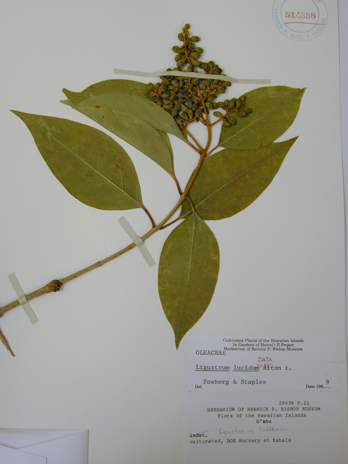 Ligustrum lucidum (BISH specimen). Location: Oahu, Kahala